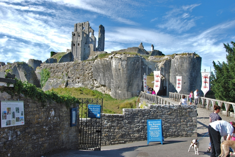 Corfe Castle: Entrance. The keep is visible in the background.